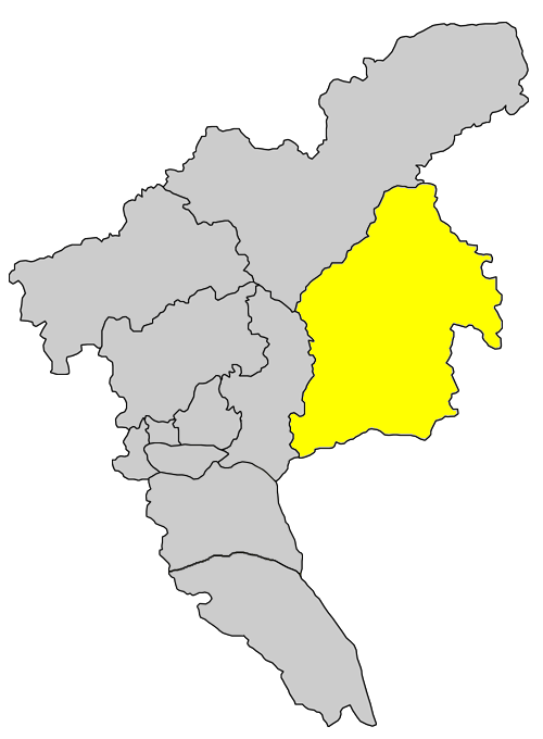 Location of Zengcheng District, Guangzhou